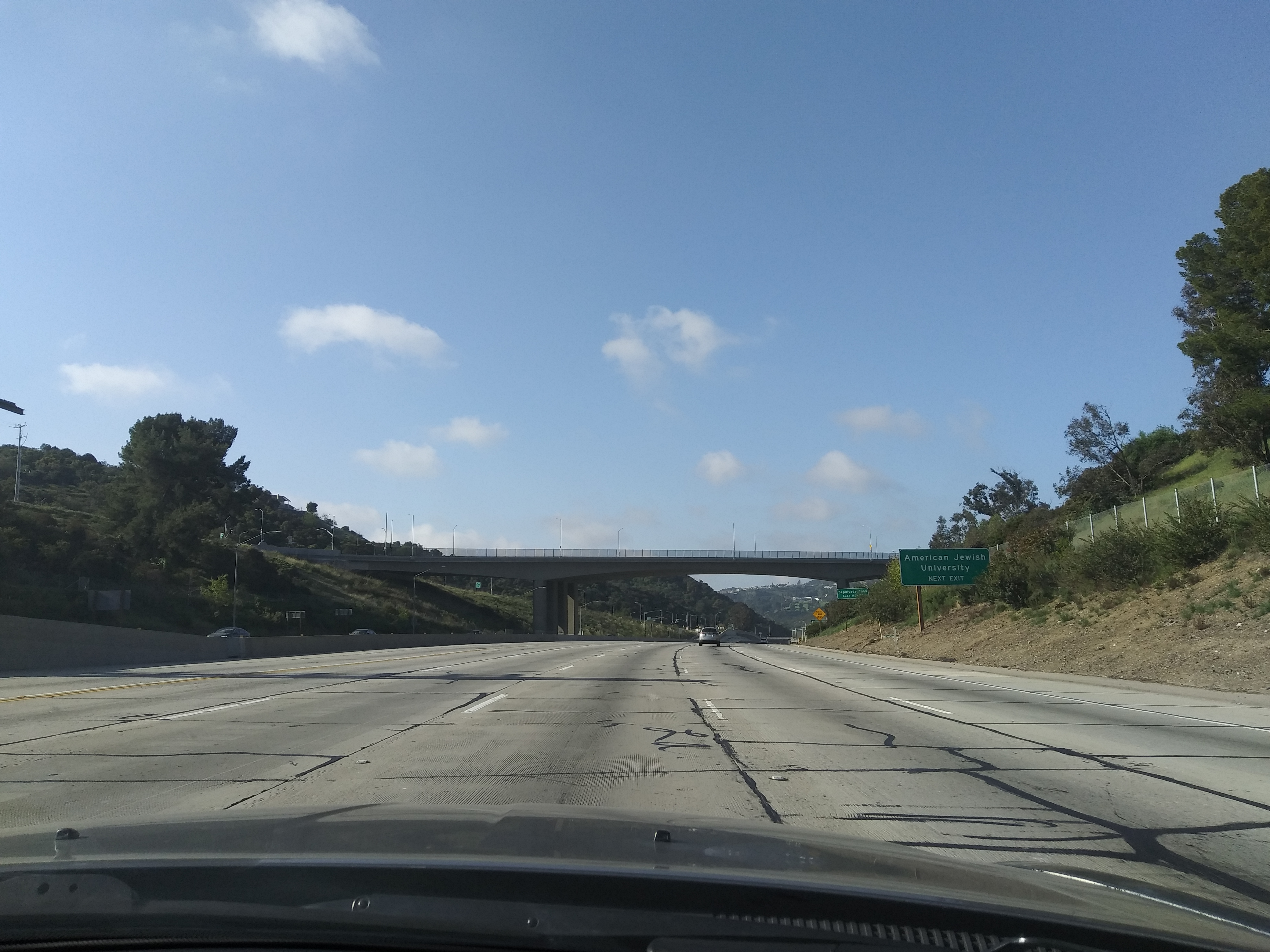 405 Freeway in Los Angeles during the COVID-19 pandemic (Sunday March 29th 2020).